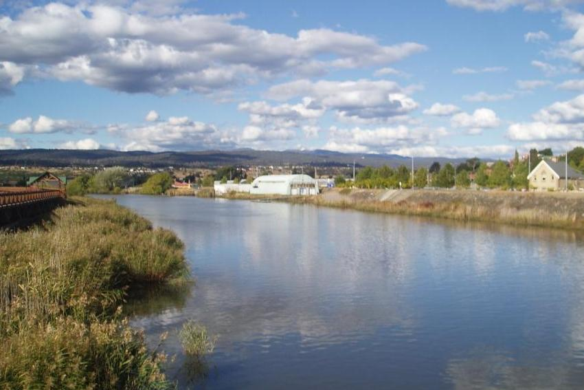 North Esk River from a bridge in Launceston. North Esk River, Launceston. The North Esk River, the boundary between Cornwall and Dorset.